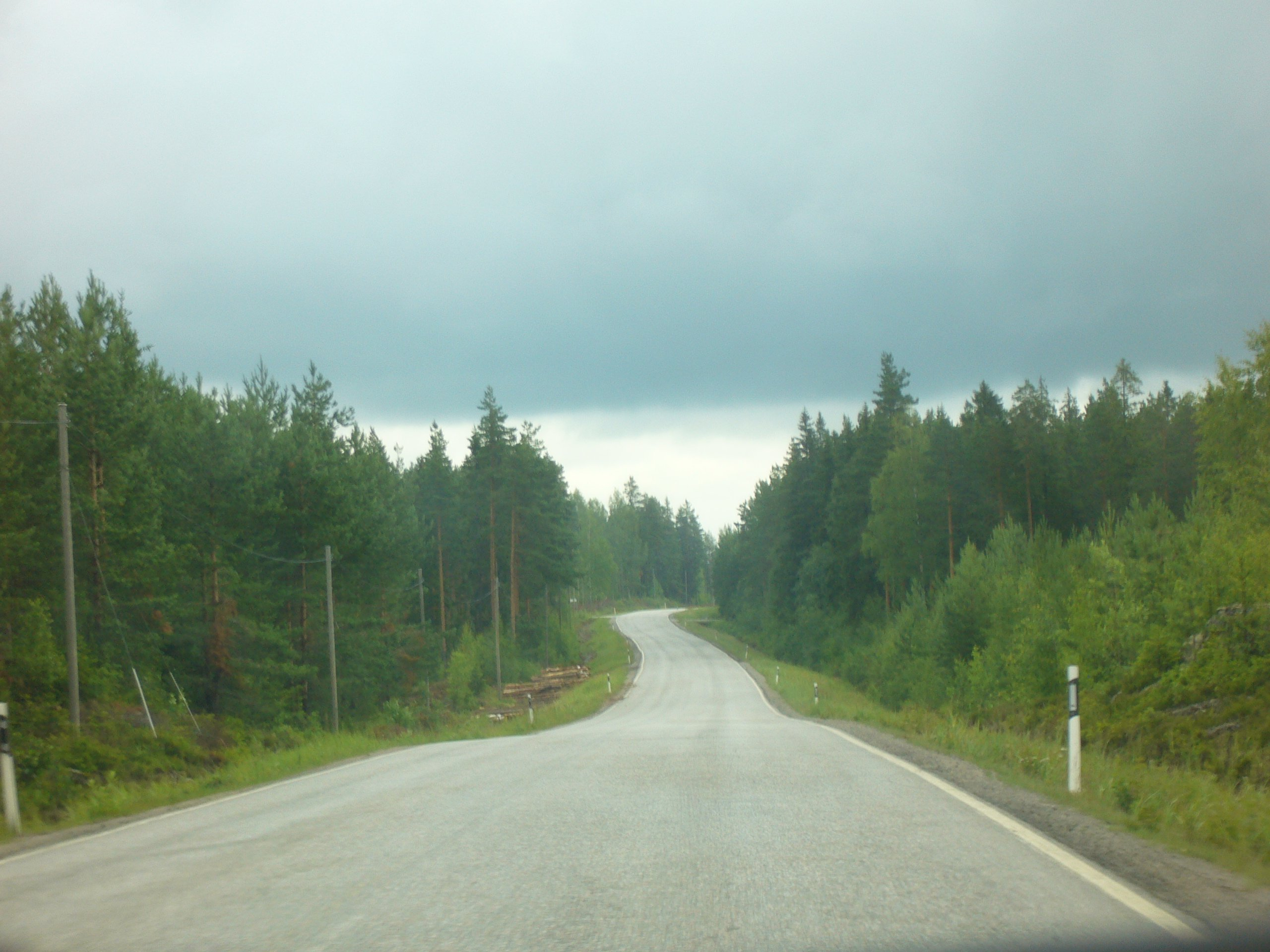 Regional road 672 (Tokerotie) in Jalasjärvi, Finland